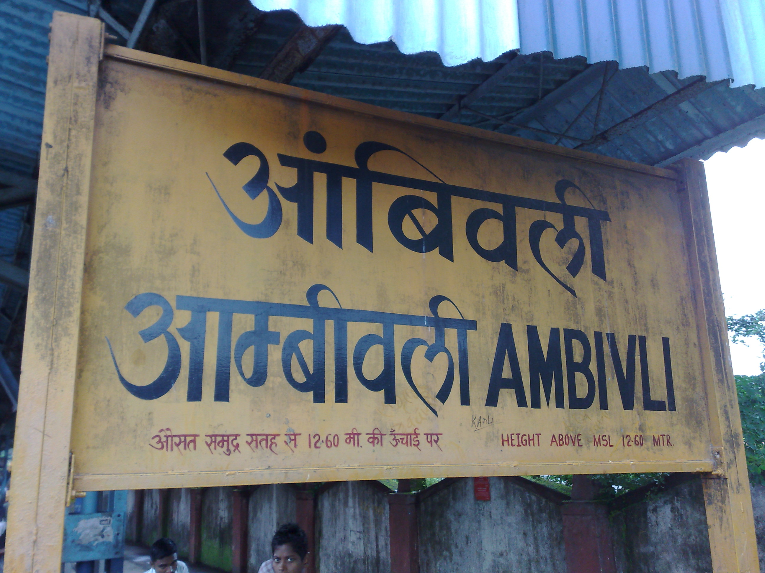 Ambivli railway station - Station board